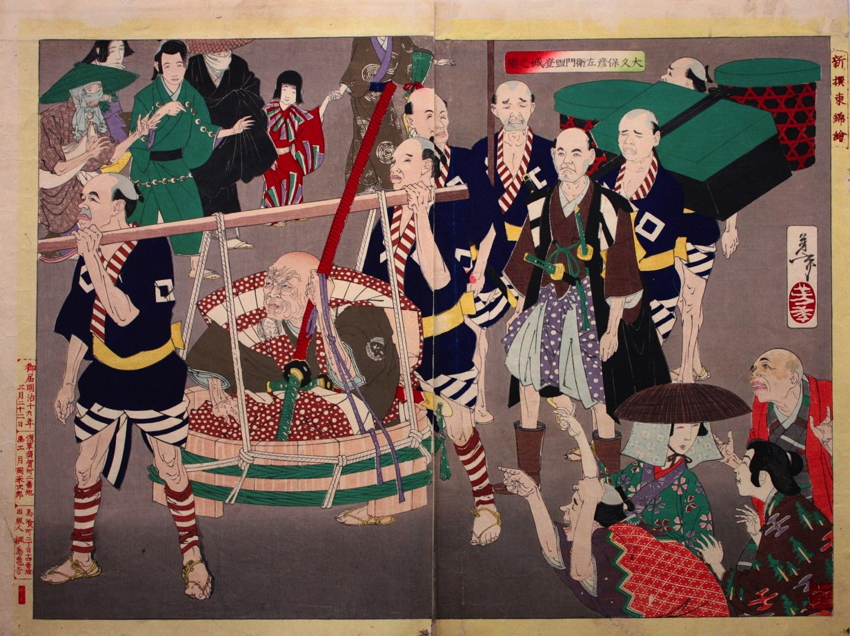 An ukiyo-e of Ōkubo Hikozaemon carried to the Shogun's Castle in a tub.